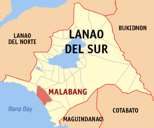 Map of the Lanao del Sur showing the location of Malabang